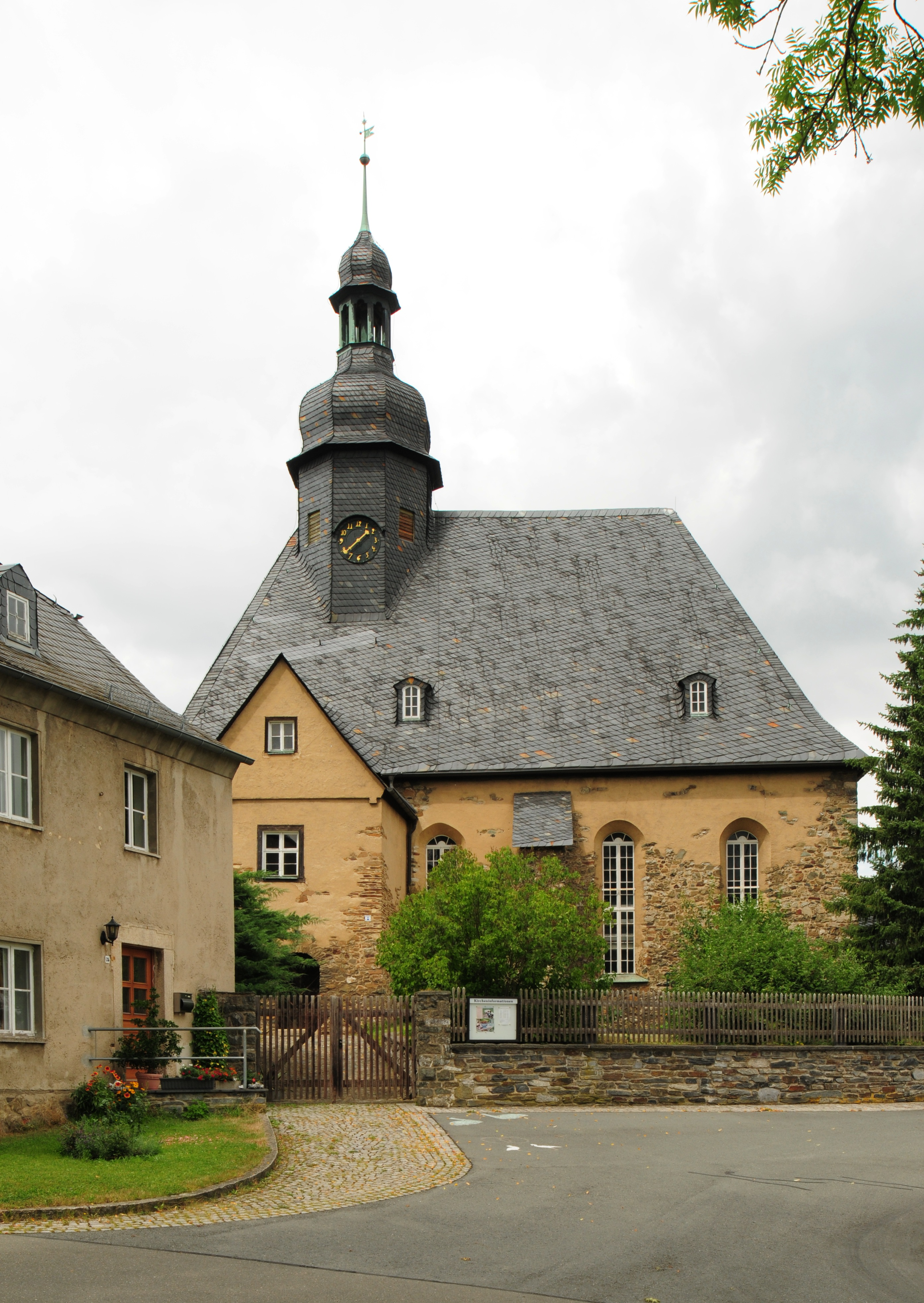 municipaliy Weischlitz: rural district Rodersdorf (district Vogtlandkreis, Free State of Saxony, Germany) church (1662) and cantor's house (left)